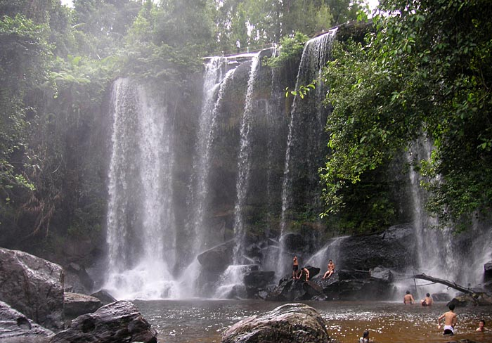 Waterfall on Phnom Kulen